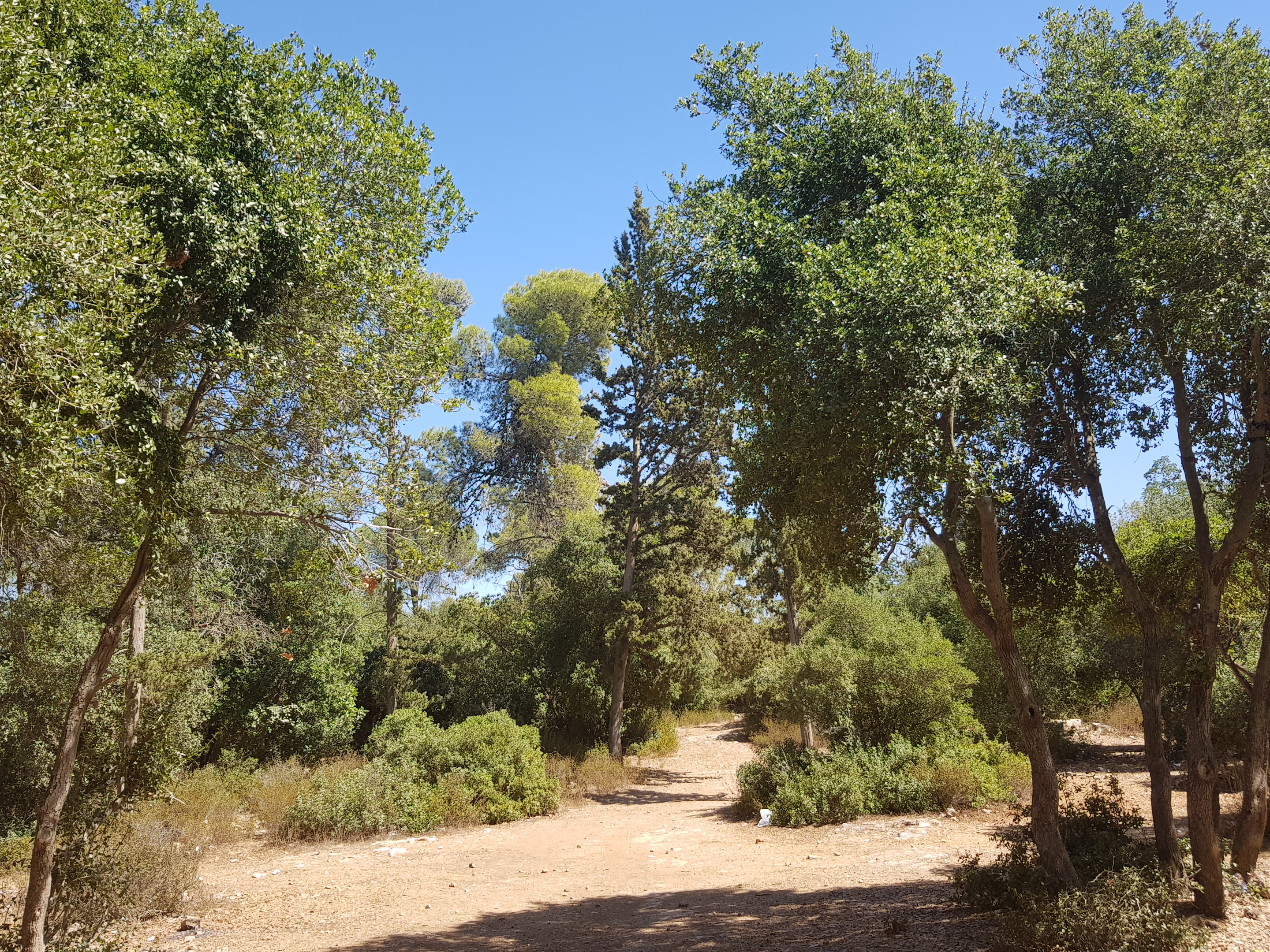 The sight of the trees in the Um Safa forest